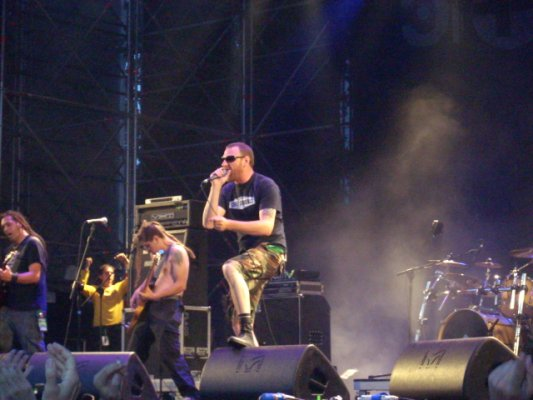 Punkreas in concert in Turin, Italy.